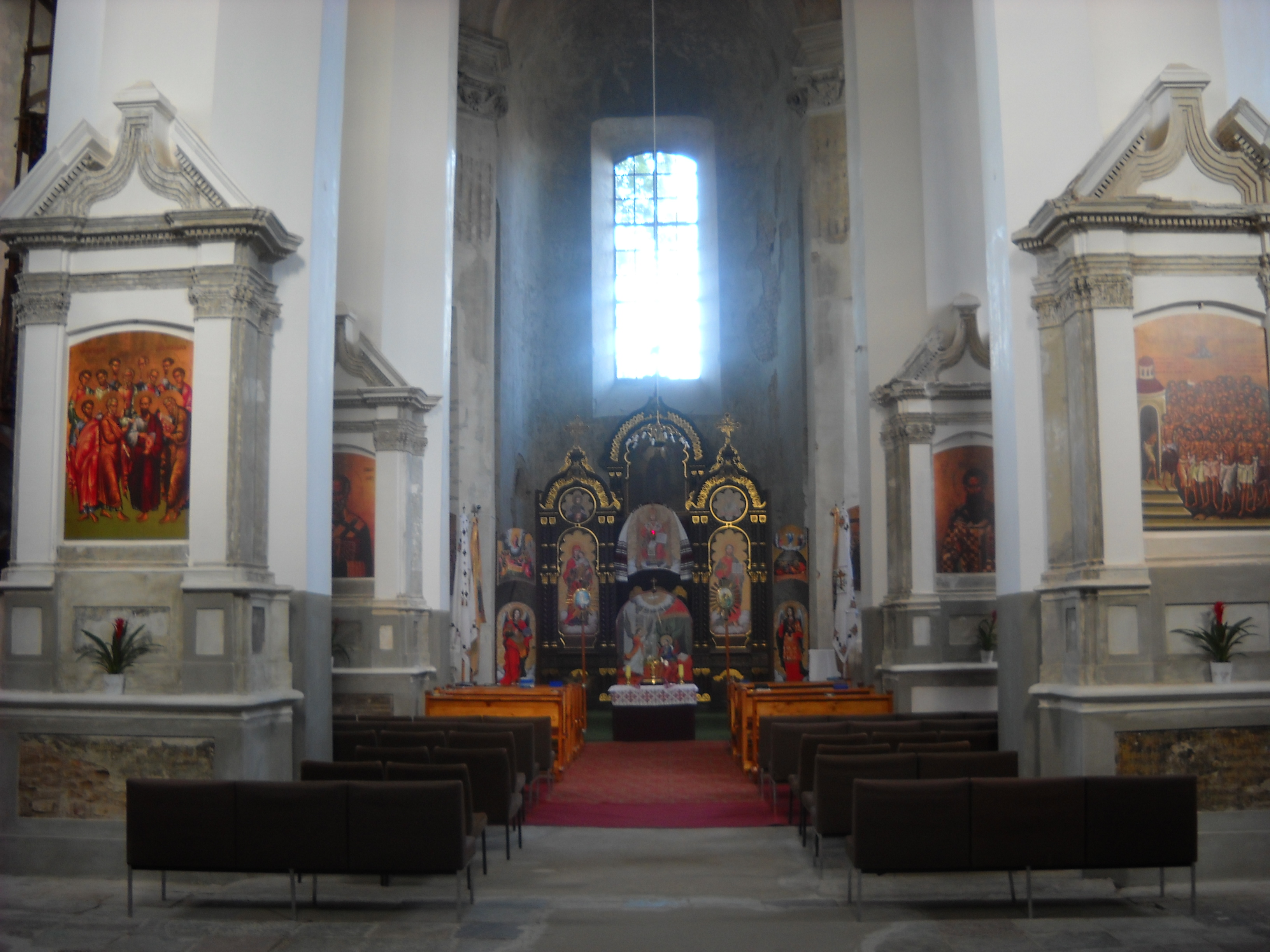 Church of the Basilian Friars in Vilnius, 2011